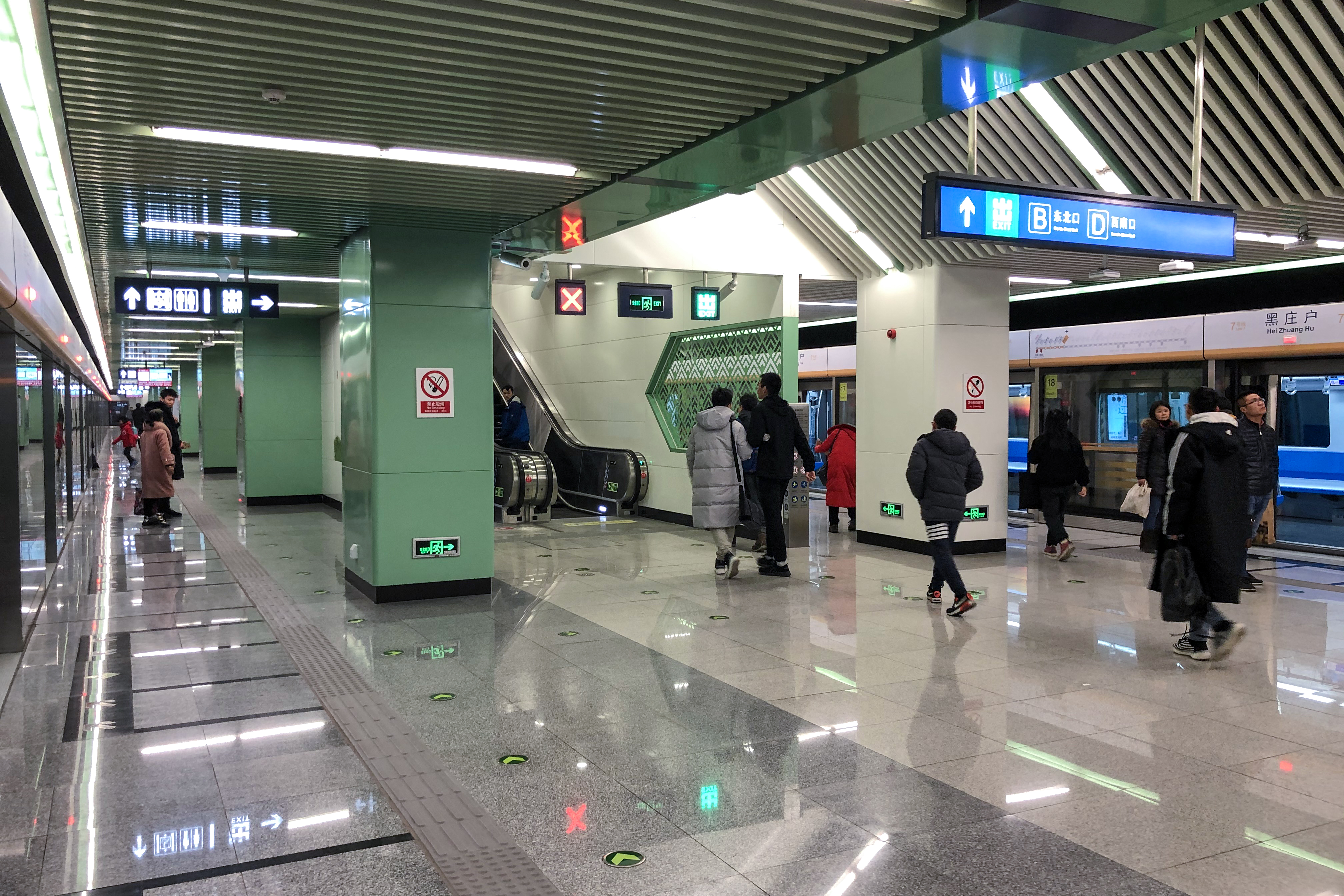 Hak Chong Wu, some trains terminate here. The station at Heizhuanghu isn't "black" at all.